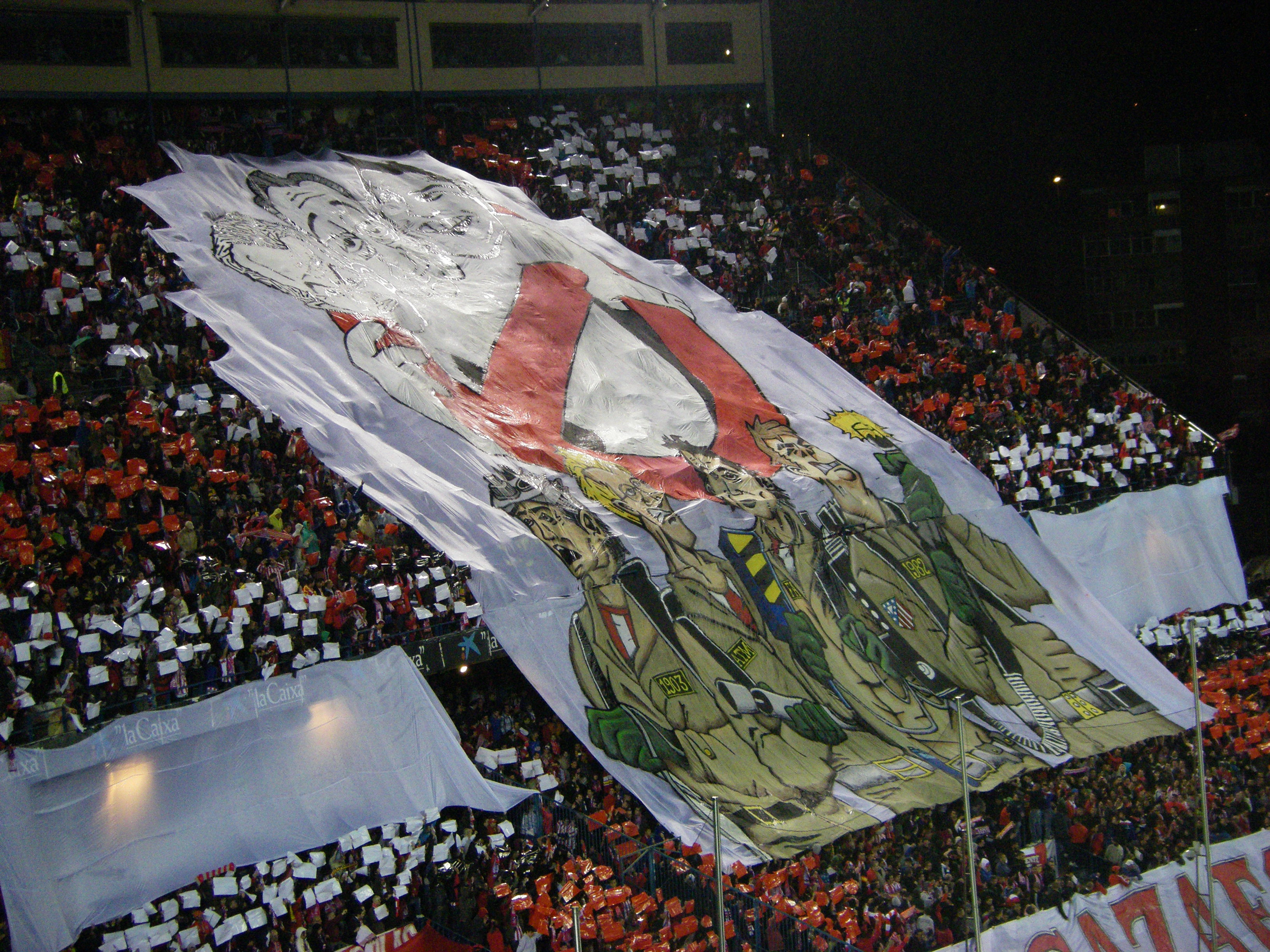 Transparent of fans from Atlético de Madrid during the Madrid derby